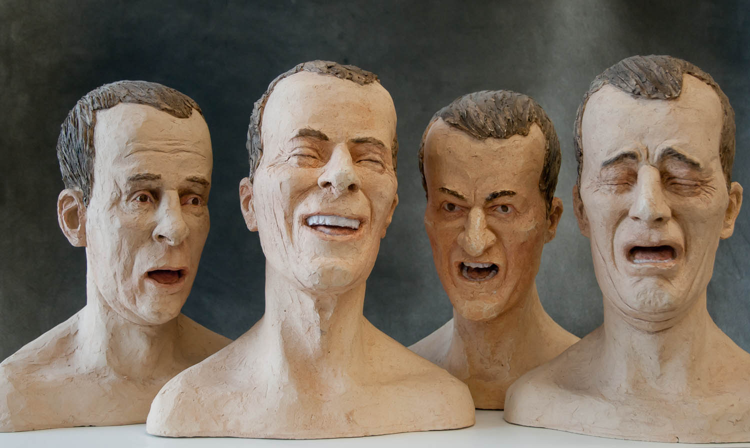 Portrait of a Man. 2004-2006